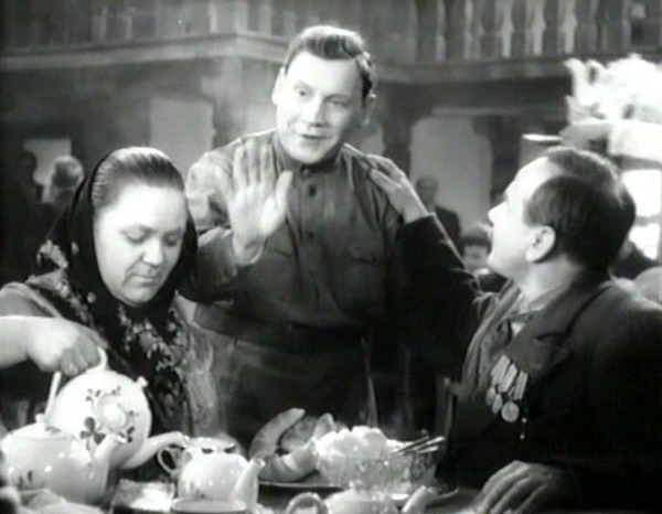 Pavel Olenev (center) as Klimov in The Precious Seed (1948)